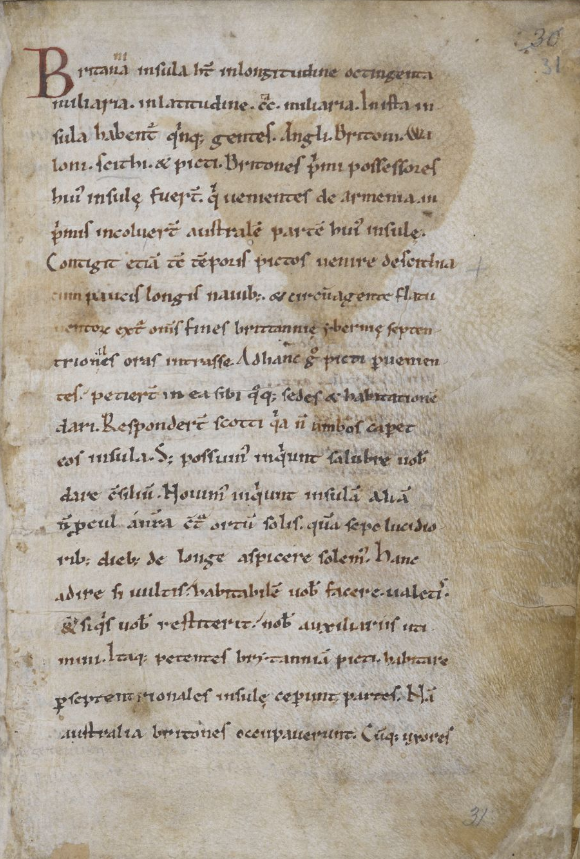 British Library MS Cotton Domitian A VIII, f. 31r